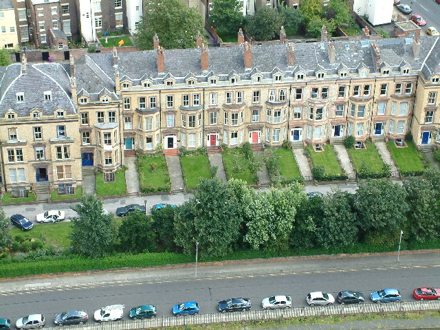 View from the top of the Anglican Cathedral Tower, Liverpool